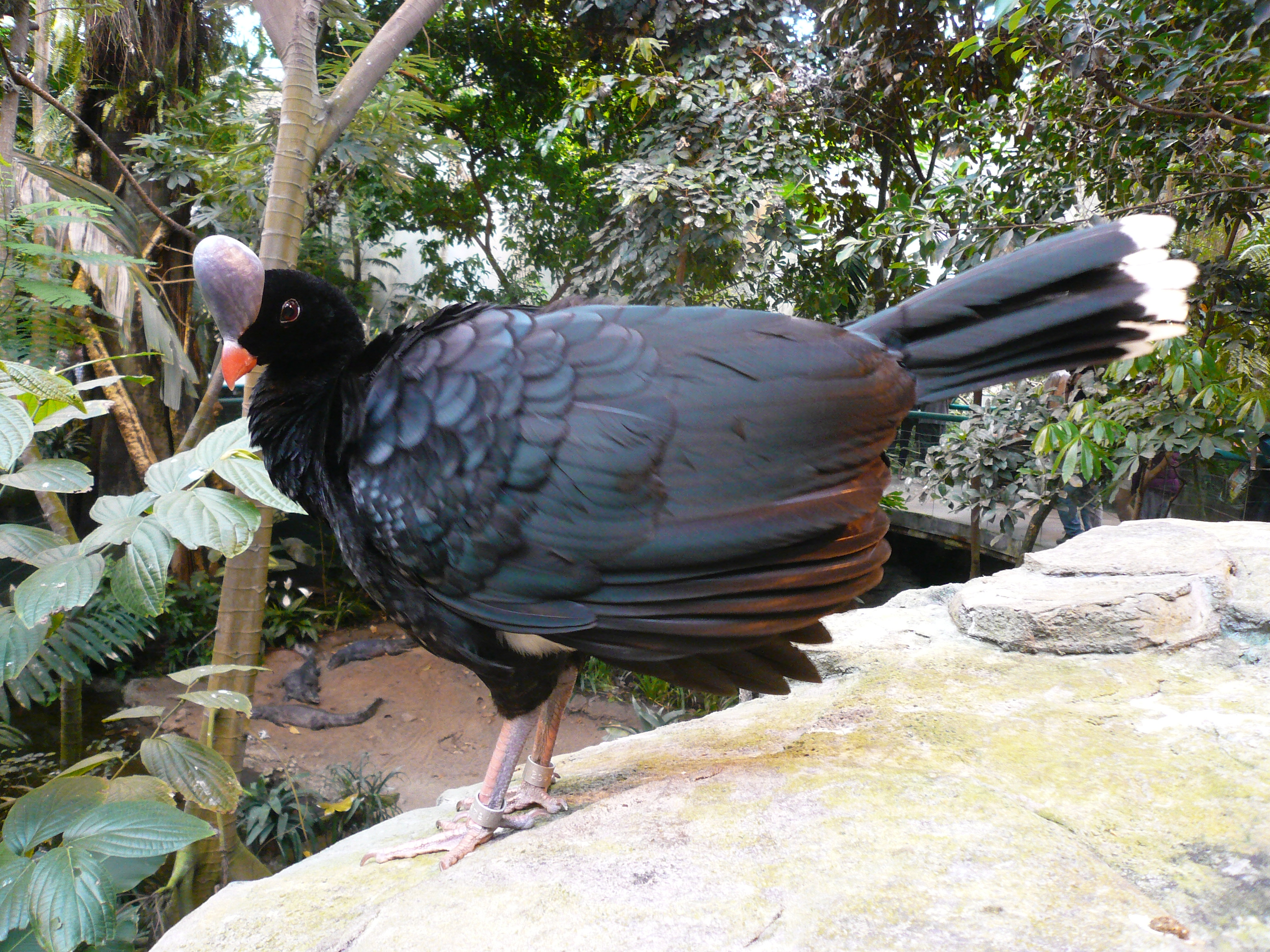 Northern Helmeted Curassow (Pauxi pauxi pauxi) at Montreal Biodome. Canada.